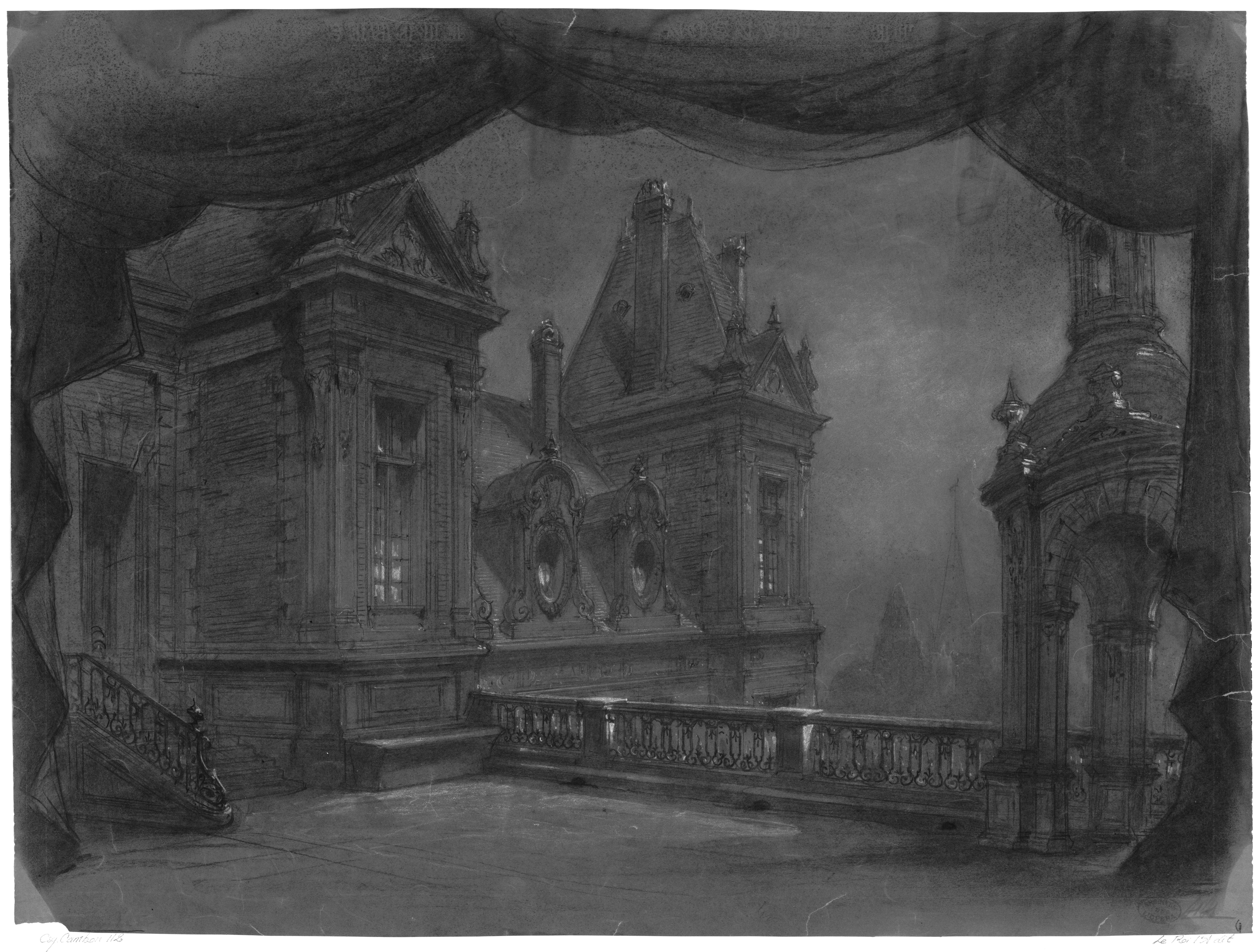 Stage design by Charles-Antoine Cambon for the opéra-comique Le roi l'a dir by Léo Delibes. [The original image has been modified: it has been converted to grayscale, and the levels modified.]